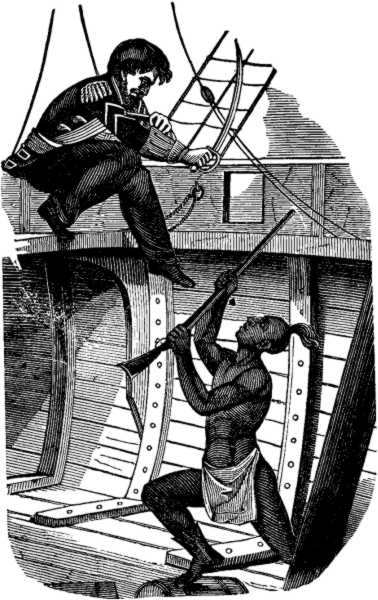 Capt. Christopher Condent leaping into the hold, to attack the Indian as depicted in The Pirates Own Book by Charles Ellms.